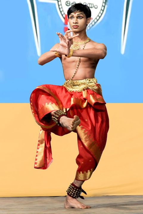 kuchipudi